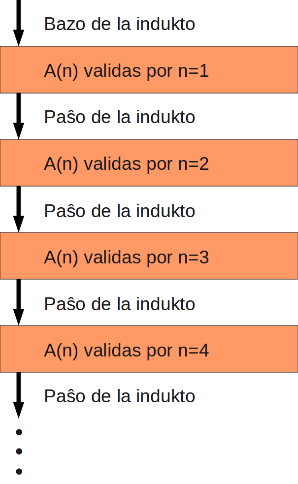 Illustration of mathematical induction in Esperanto